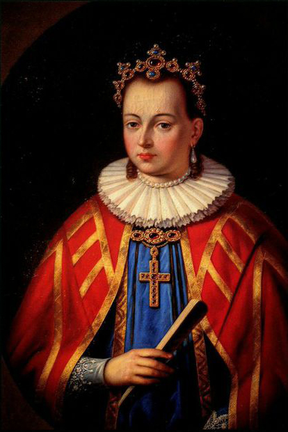 Portrait of Elizabeth Euphemia Radziwill